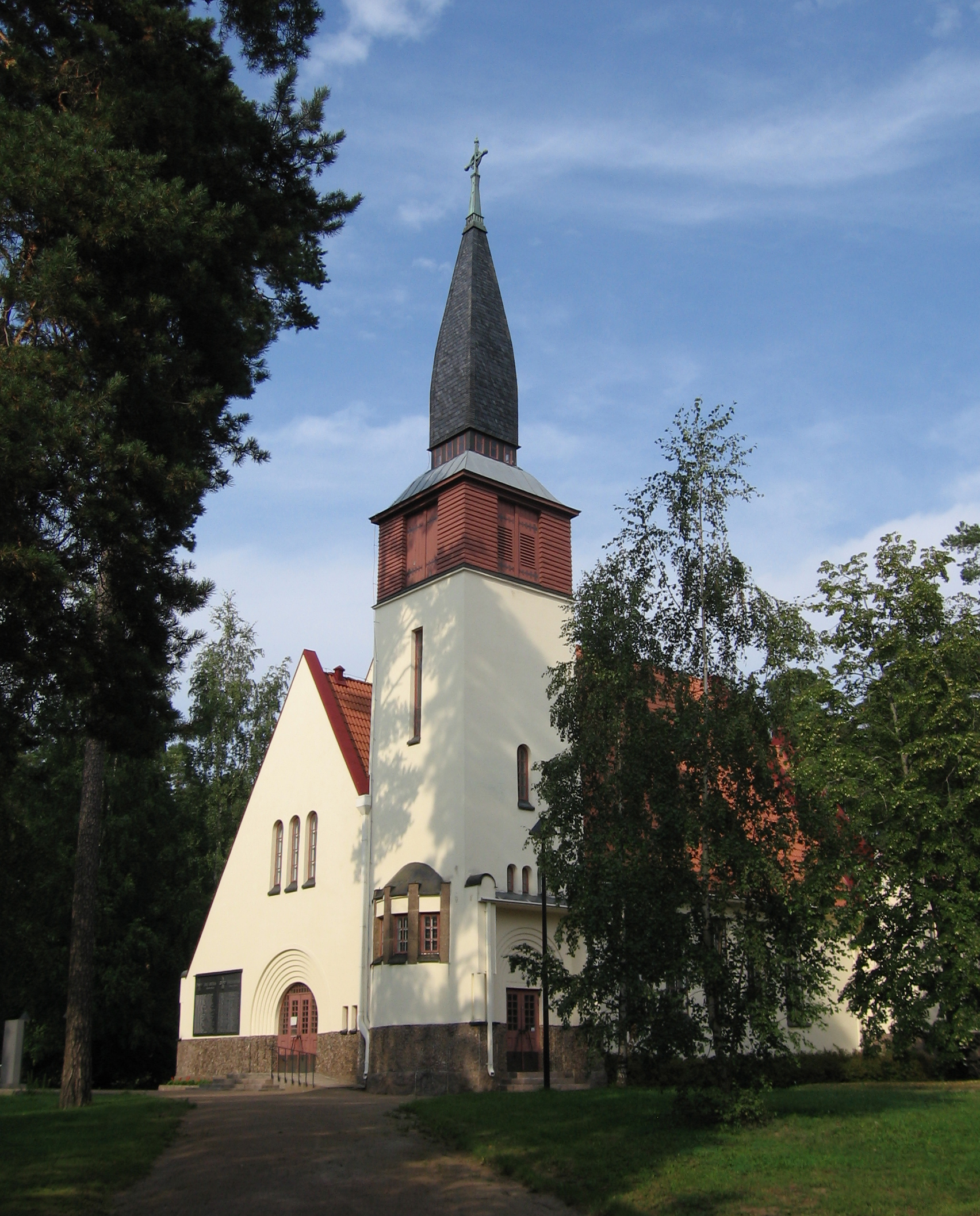 Tehtaanmäki church in Inkeroinen, Anjalankoski, Finland